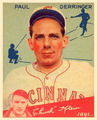 1934 Goudey baseball card of Paul Derringer of the Cincinnati Reds #84. PD-not-renewed.